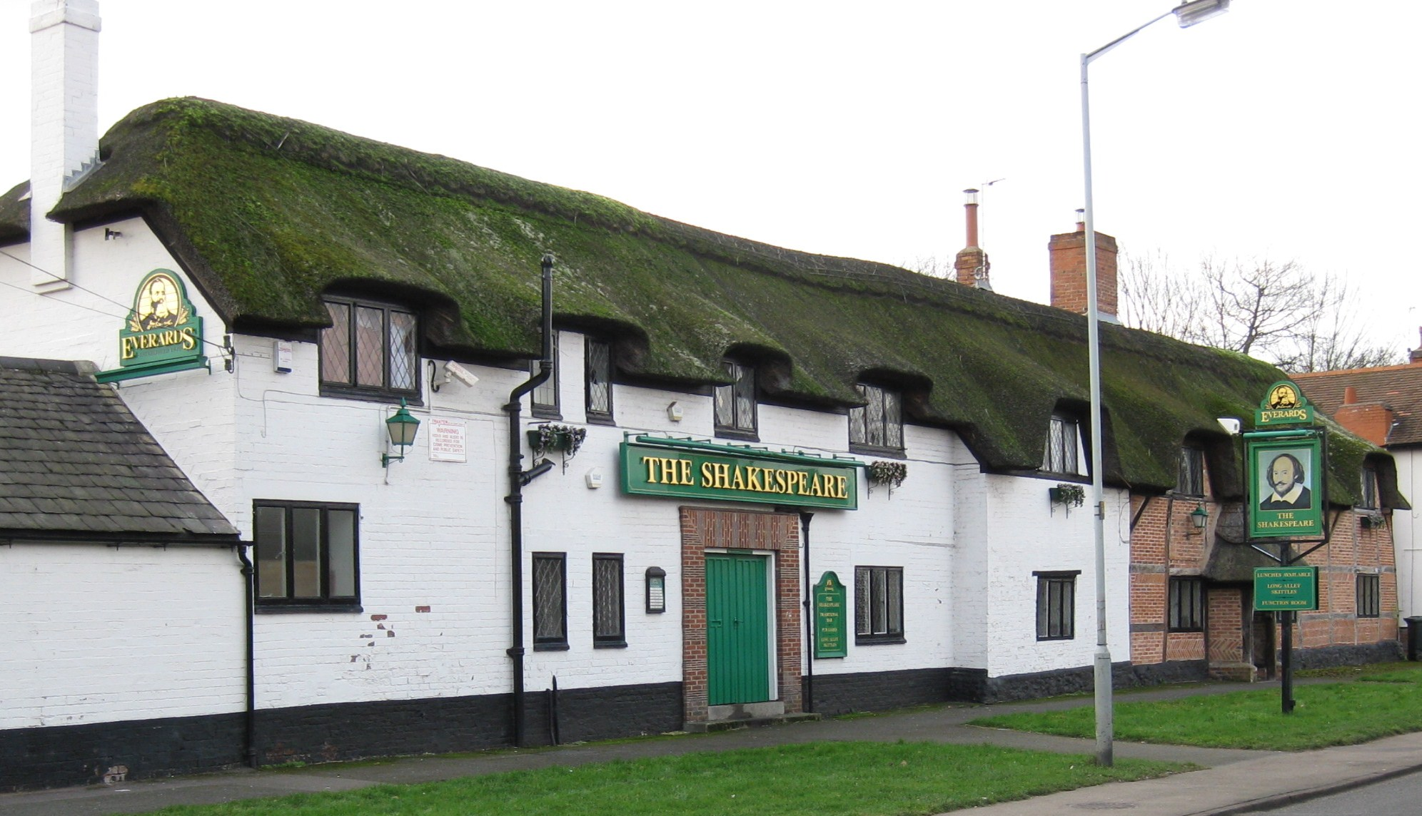 The Shakespeare public house, Braunstone Lane, Leicester, LE3 3AS